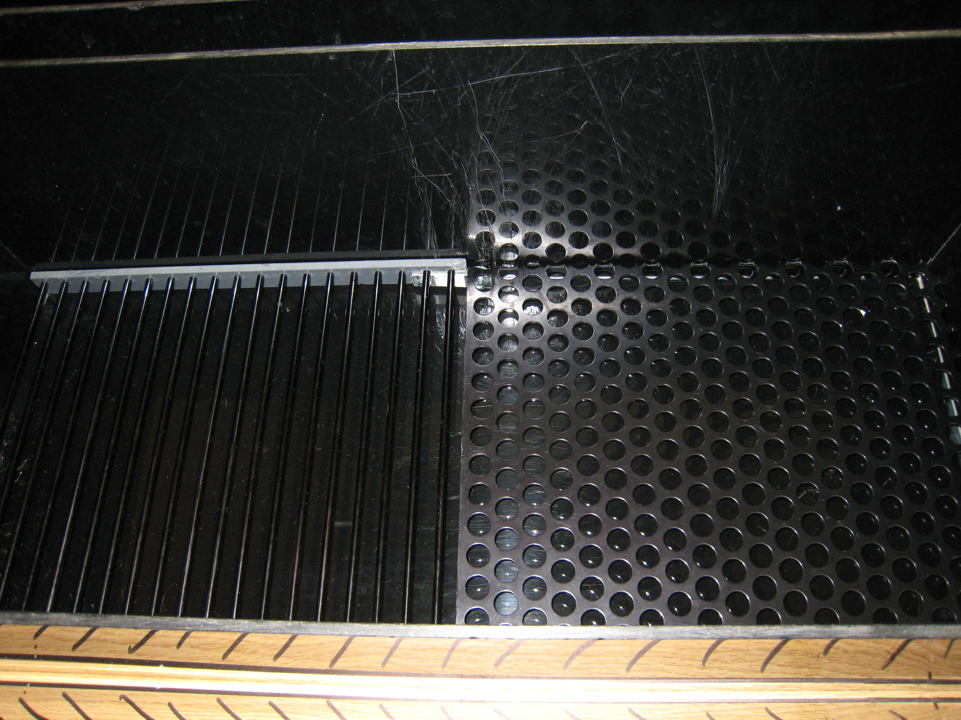 Different floor textures are used in the conditioned place preference paradigm to allow animals to distinguish between compartments.